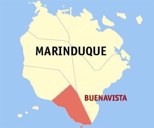 Map of Marinduque showing the location of Buenavista